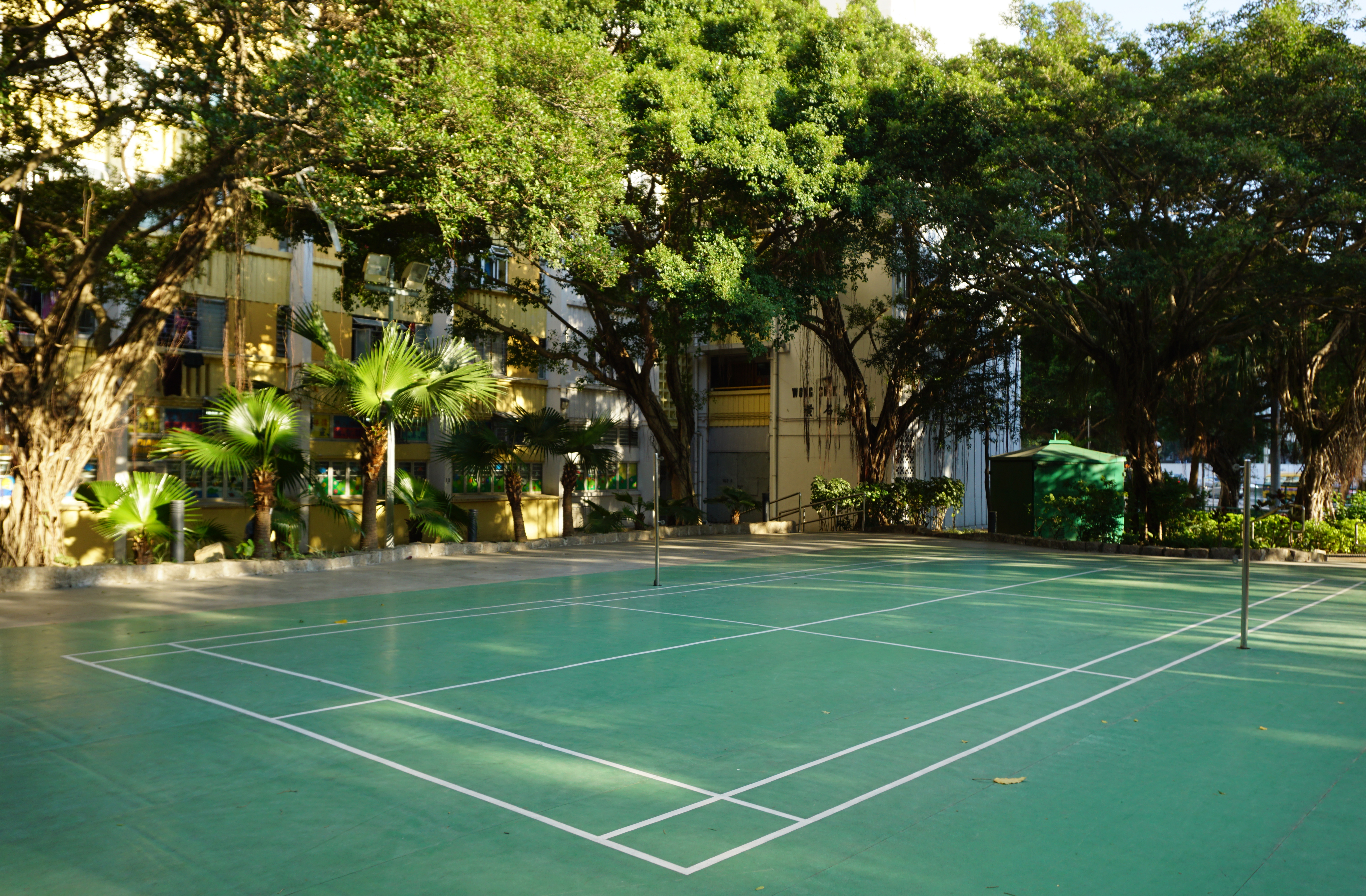 Ping Shek Estate in Choi Hung, Hong Kong.